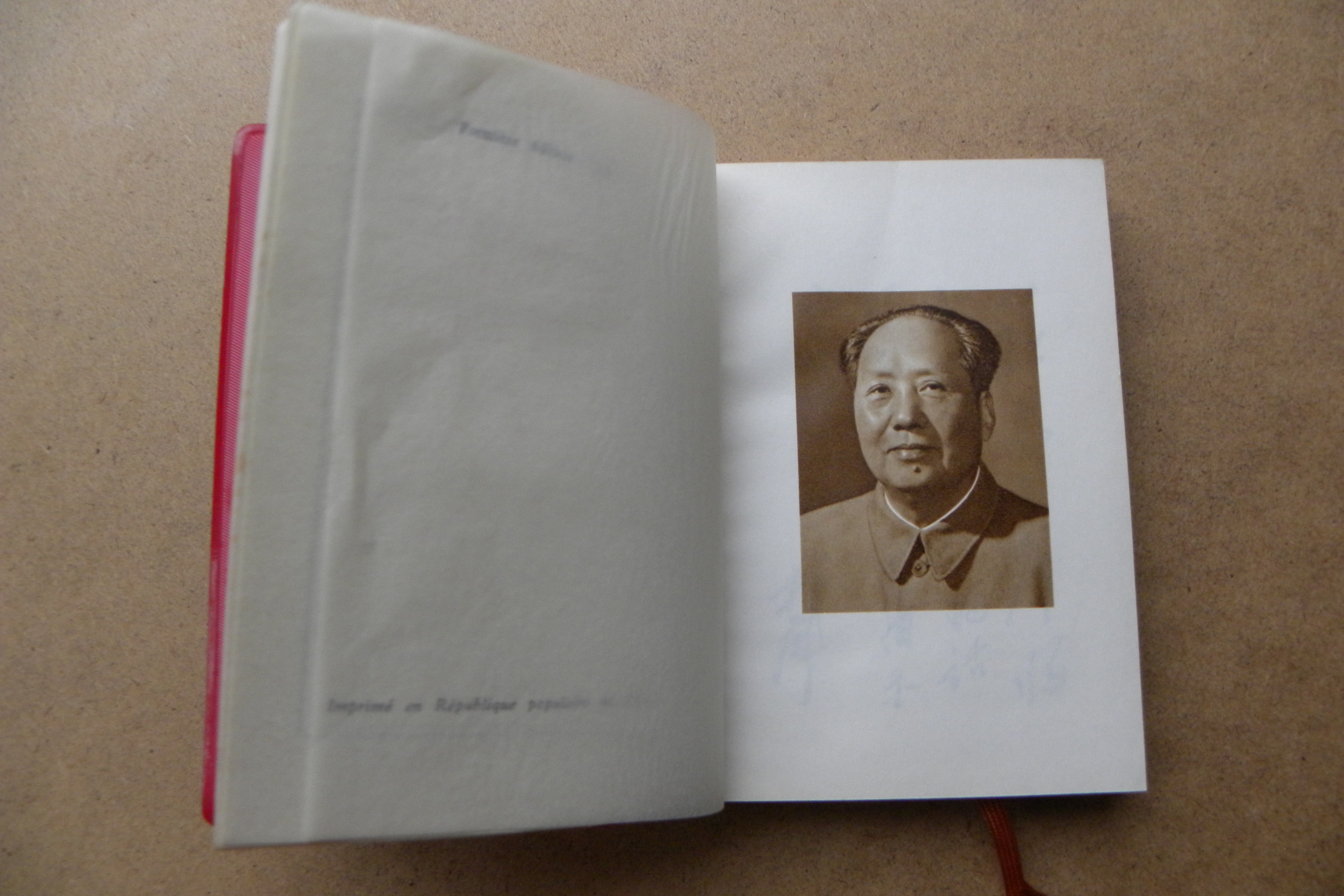 The little Red Book - Quotations from Chairman Mao Zedong - first French edition - 1966 - printed in the Peoples' Republic of China. This is a look at the open booklet. 95 x 134 mm